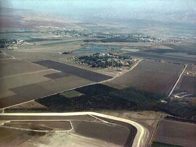 Reshafim is a kibbutz in northeastern Israel.